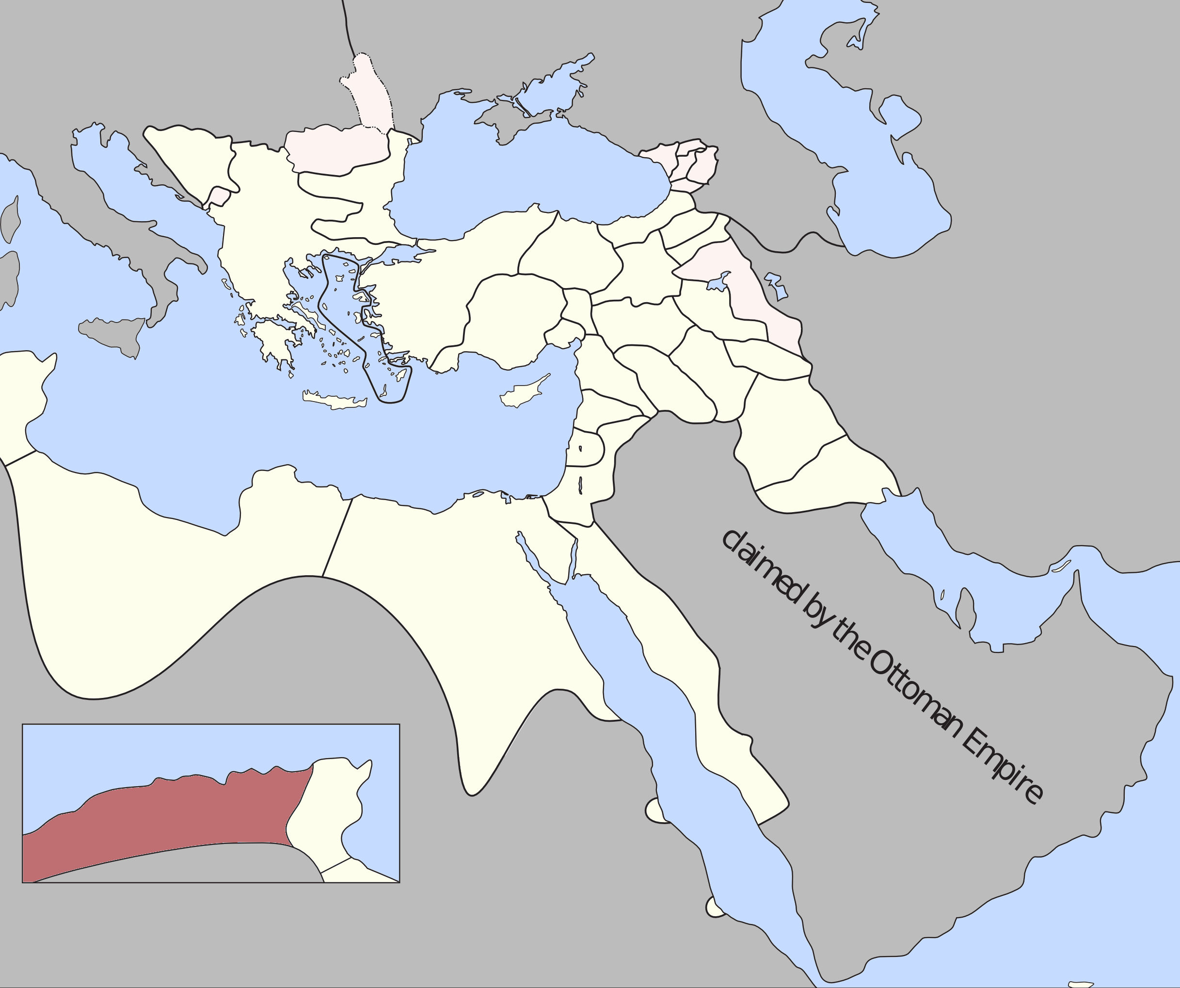 XY Eyalet, Ottoman Empire (1795). Source: A Brief History of the Late Ottoman Empire at Google Books By M. Sukru Hanioglu, Figure 1